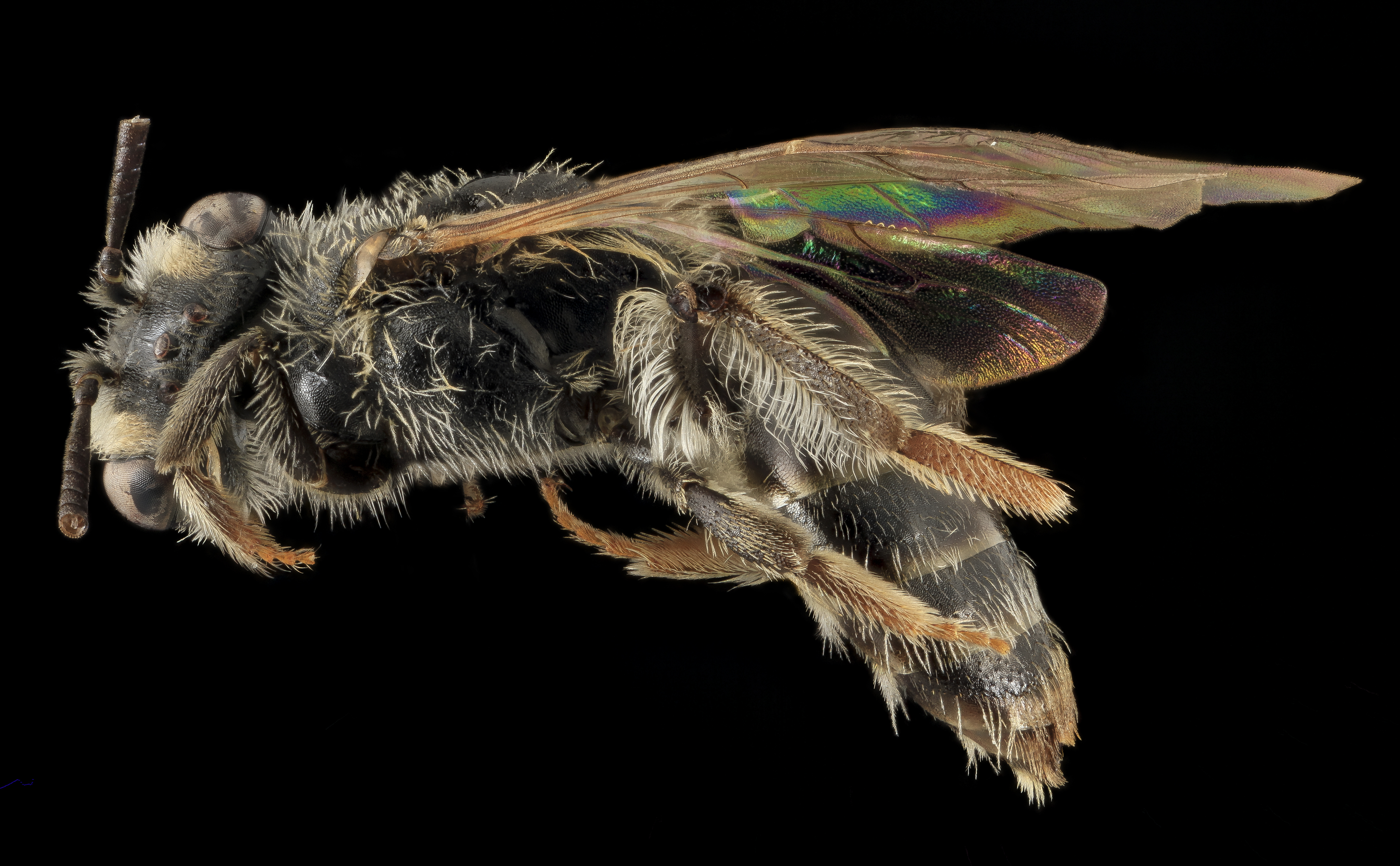 A little tiny Andrena bee collected in the sandhills of North Carolina by Heather Campbell. Not much is know about this species, other than it appears to be uncommon and spotty in occurrence and runs from the West to the East coast with a fair amount of variation, which usually indicates that other species may be hidden within this one. So much work to do. Photograph by Brooke Alexander. Canon Mark II 5D, Zerene Stacker, 65mm Canon MP-E 1-5X macro lens, Twin Macro Flash, F5.0, ISO 100, Shutter Speed 200, link to a .pdf of our set up is located in our profile